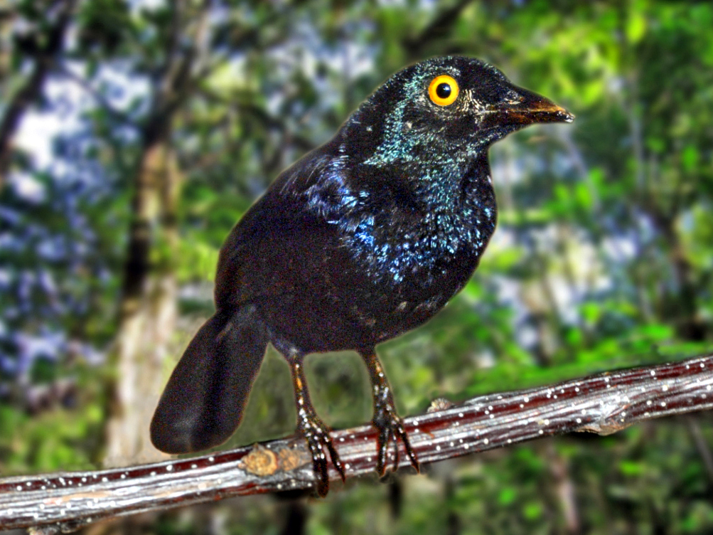 Manucodia ater. On display at the University History Museum, University of Pavia